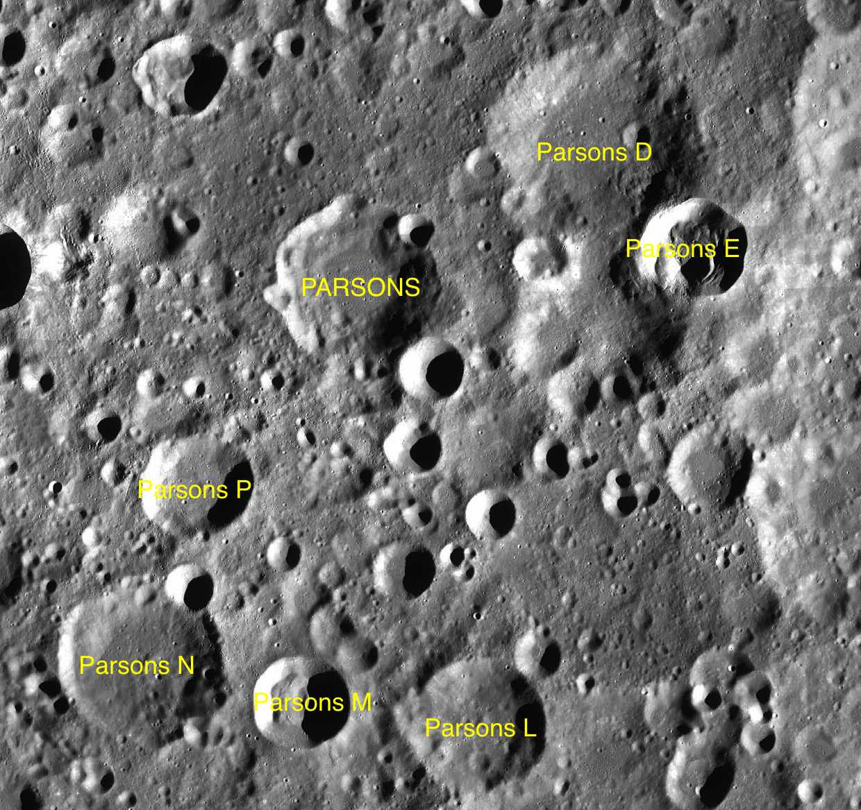 Part of the chart LAC-33 used for the presentation